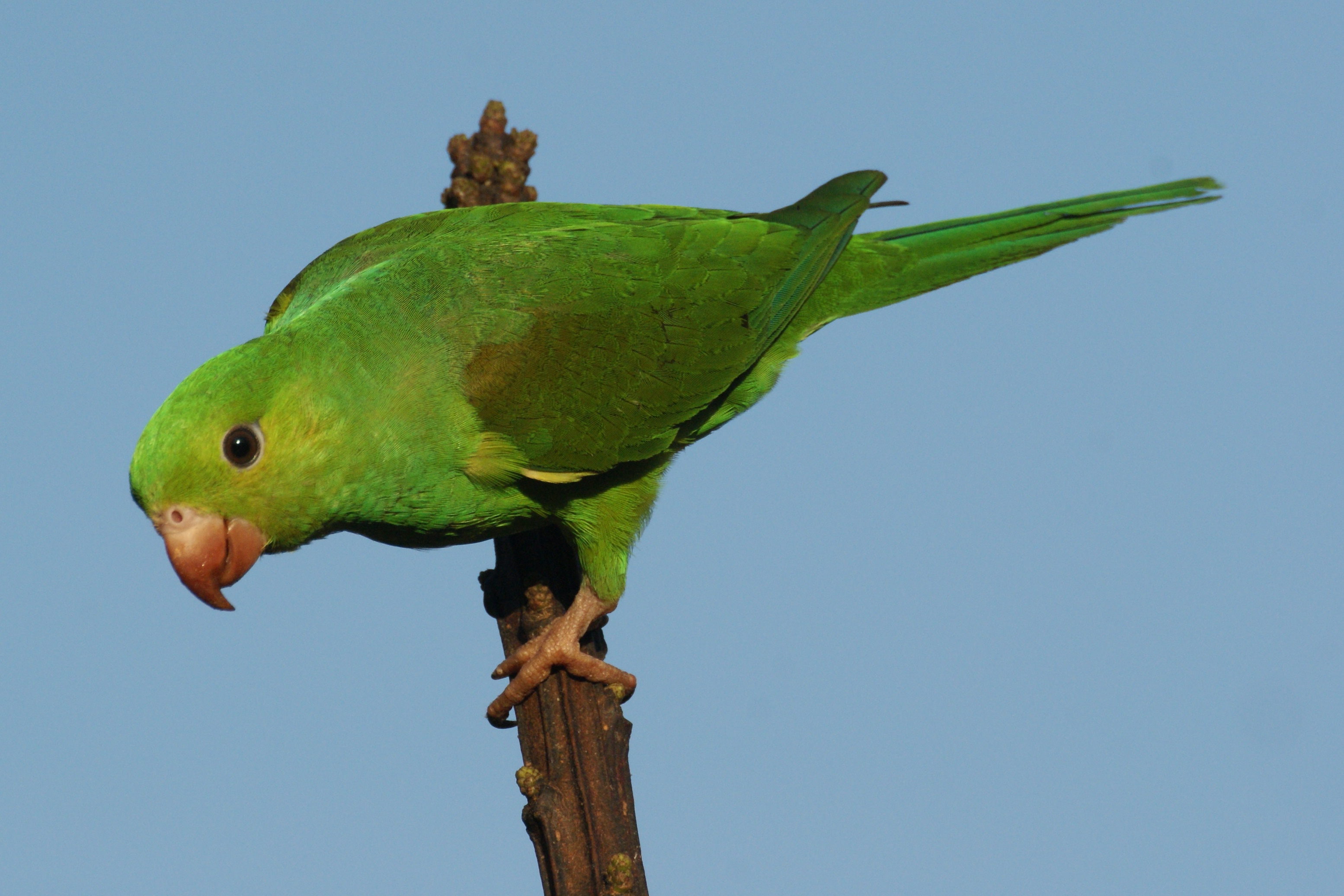 A Plain Parakeet in Morretes, Paraná, Brazil.